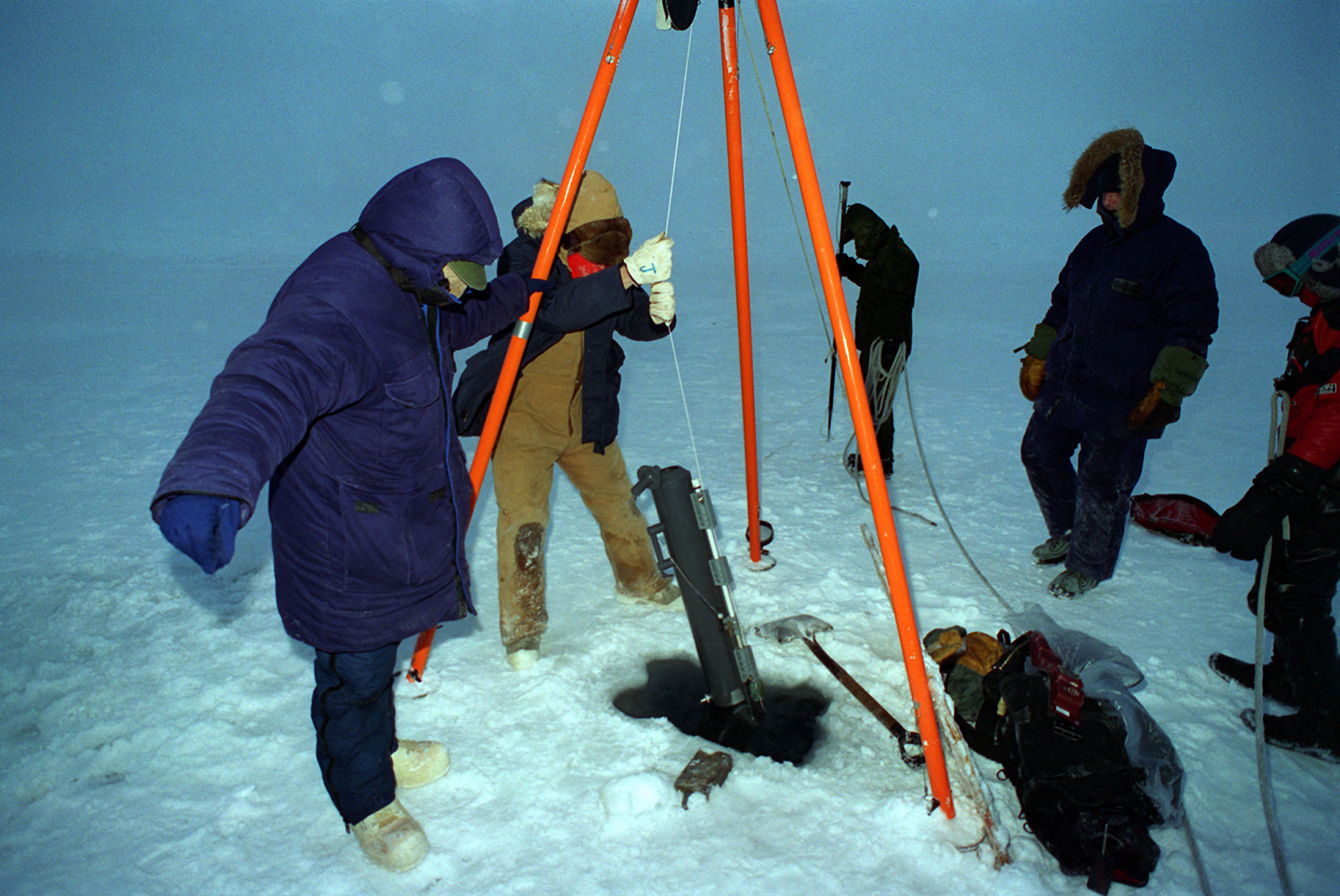 Scientists embarked on board the U.S. Navys attack submarine USS POGY (SSN 647), lower a Niskin Bottle through a hole in the Arctic ice to collect deep water samples. The U.S. Navys attack submarine USS POGY (SSN 647) returned to Hawaii, on Tuesday, November 12, after a 45-day research mission to the North Pole. The second of five planned deployments through the year 2000, USS POGY embarked a team of researchers led by Mr. Ray Sambrotto of Columbia University. During the several thousand mile trek, the submarine collected data on the chemical, biological, and physical properties of the Arctic Ocean, and conducted experiments in geophysics, ice mechanics, pollution detection, and other areas. For the purposes of this voyage, a portion of the submarine's torpedo room was converted into laboratory space. However at no time was the ship ever removed as a front-line warship.